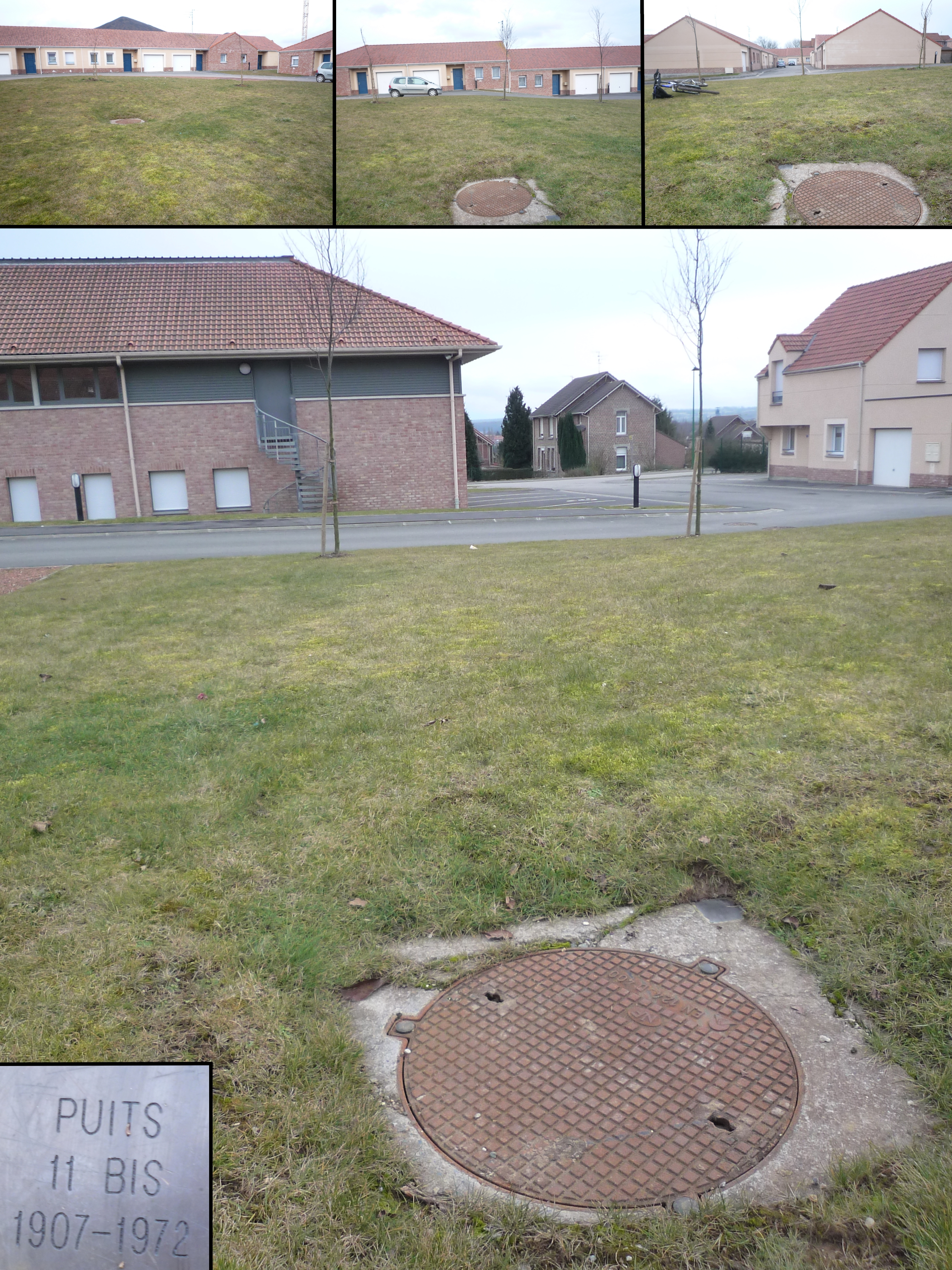 Pit n° 11 bis, Compagnie des mines de Lens, Liévin, Pas-de-Calais, Nord-Pas-de-Calais, France.